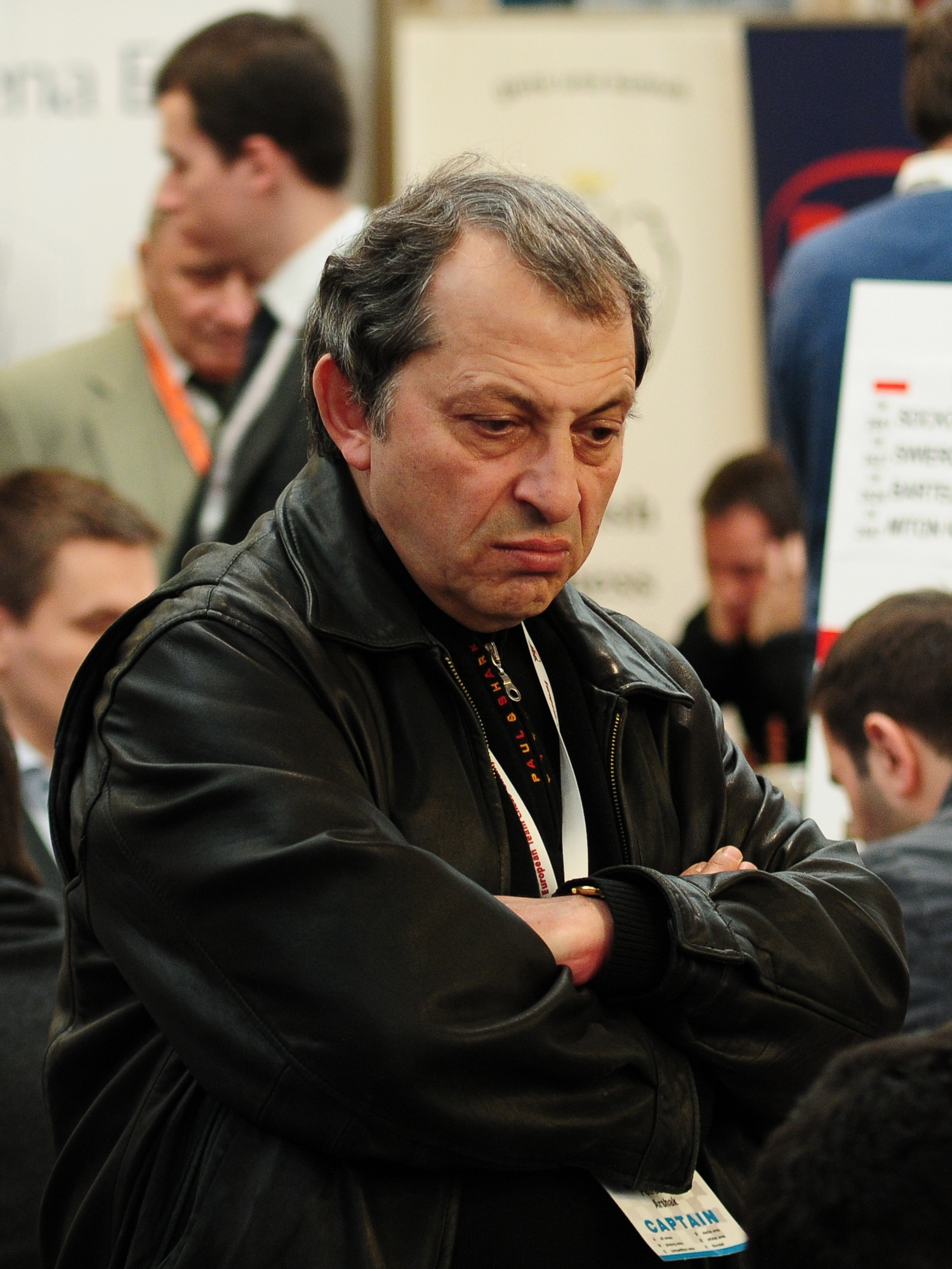 GM Arshak Petrosian, European Chess Team Championship Warsaw 2013